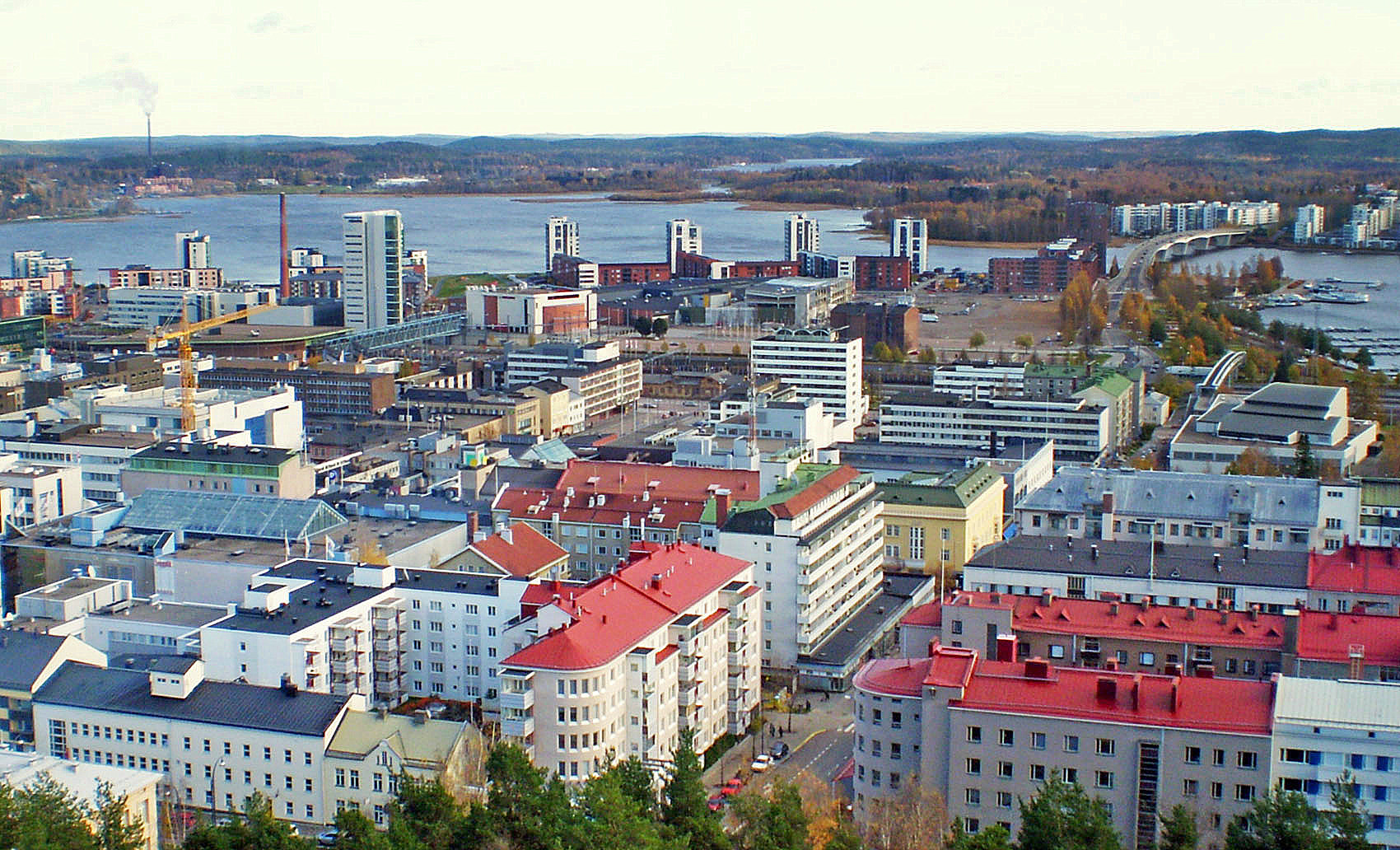 View from Vesilinna to Jyväskylä centrum. Jyväsjärvi (lake) and Kuokkala Bridge is on a background.